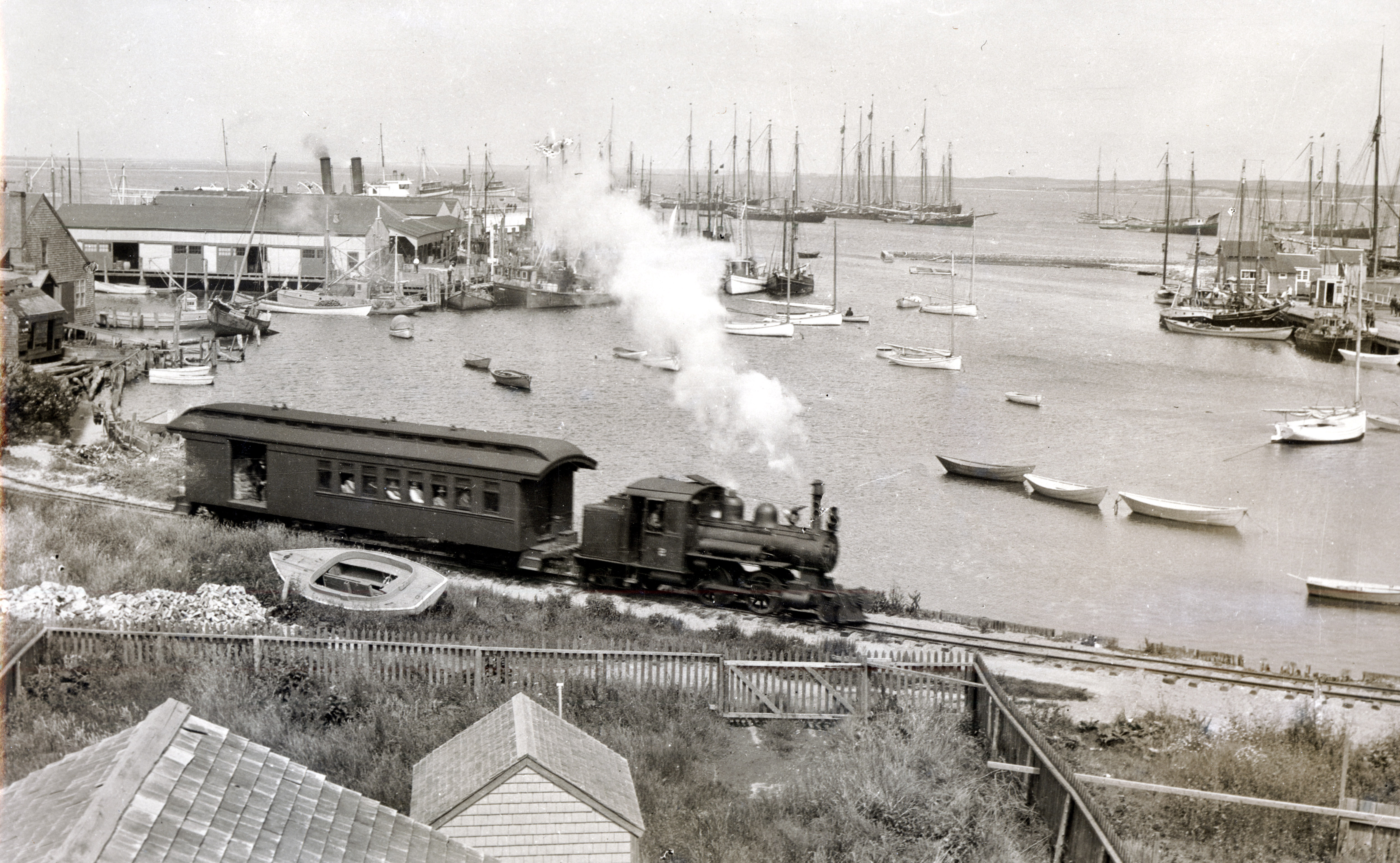 Nantucket Railroad; train leaving for Siasconset on Easy Street. Image number: F614 This image was taken from Flickr's The Commons. The uploading organization may have various reasons for determining that no known copyright restrictions exist, such as: The copyright is in the public domain because it has expired; The copyright was injected into the public domain for other reasons, such as failure to adhere to required formalities or conditions; The institution owns the copyright but is not interested in exercising control; or The institution has legal rights sufficient to authorize others to use the work without restrictions. More information can be found at Please add additional copyright tags to this image if more specific information about copyright status can be determined. See Commons:Licensing for more information.No known copyright restrictionsNo restrictions